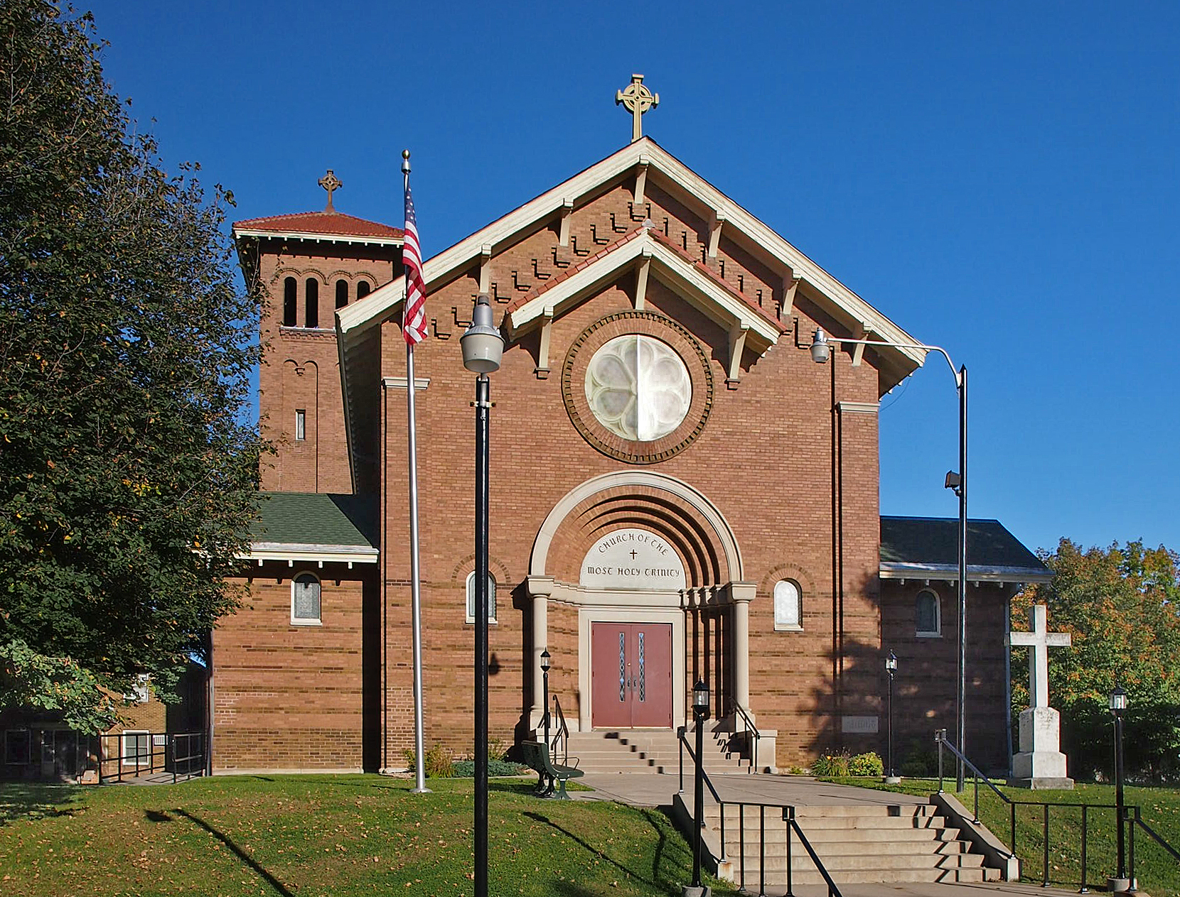 Church of the Most Holy Trinity, 4938 N Washington St, Veseli, Minnesota, USA. Viewed from the east.